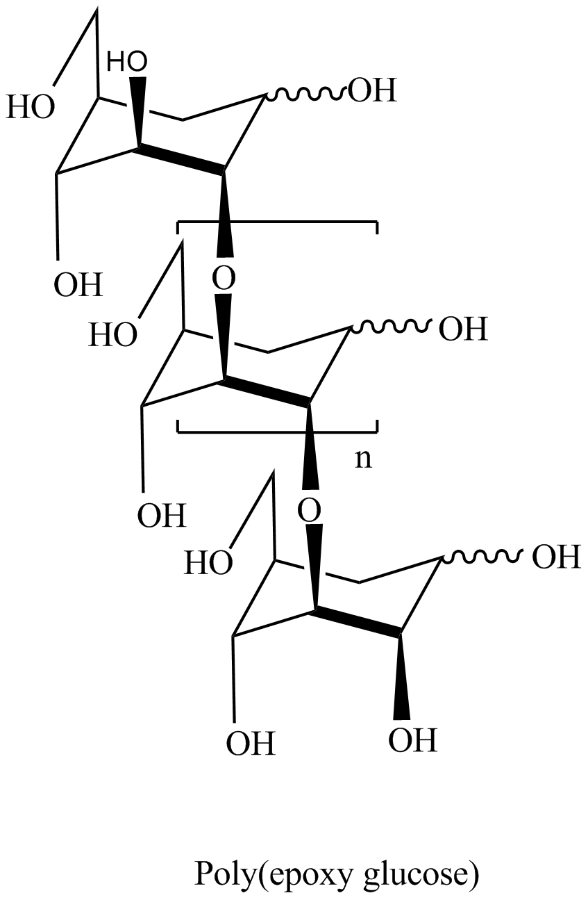 chemical structure unprotected poly(2,3)glucose